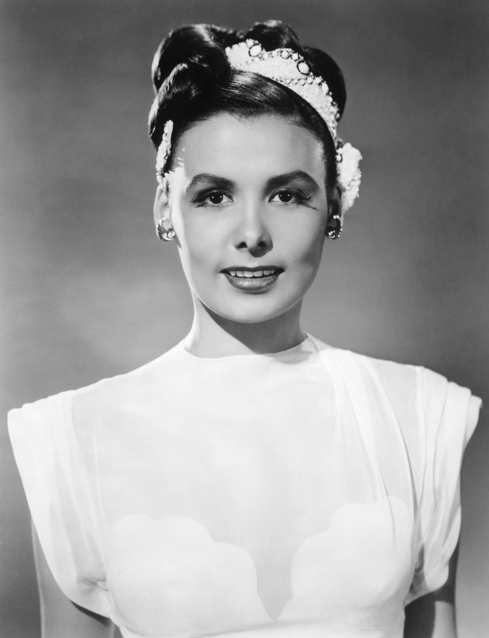 Lena Horne in Till the Clouds Roll By (1946).